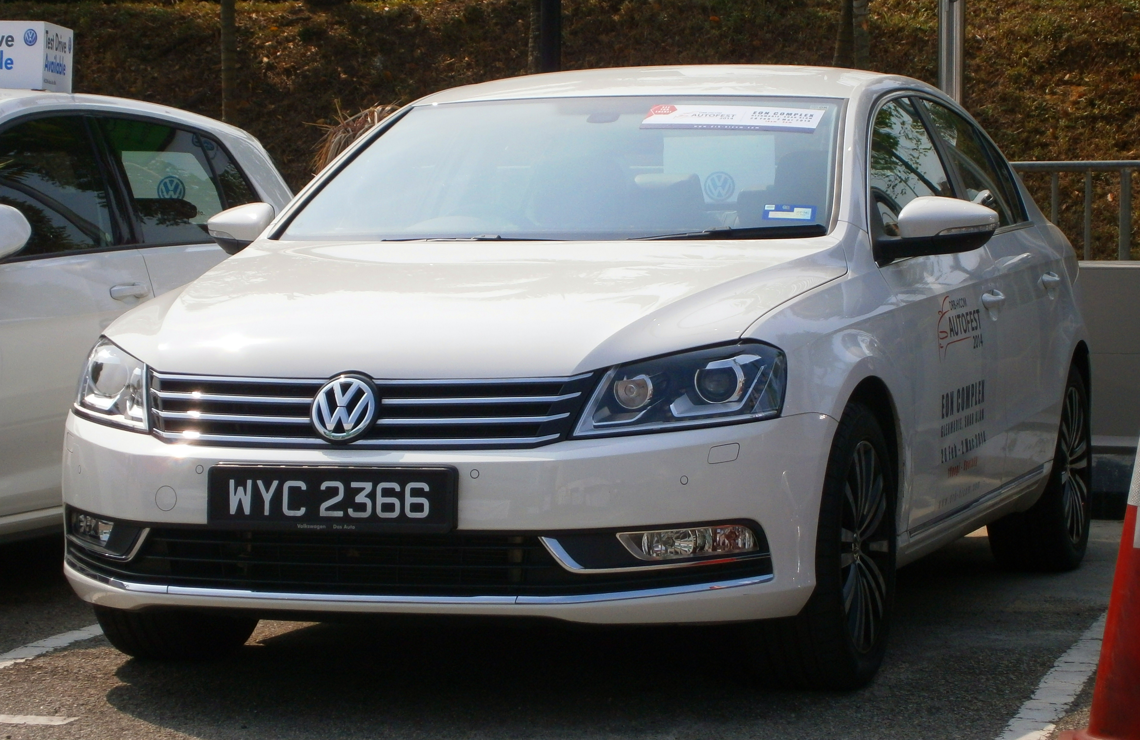 2013 Volkswagen Passat 1.8 TSI (Test Drive Car) in Glenmarie, Malaysia.Designed in Germany , Assembled in Malaysia